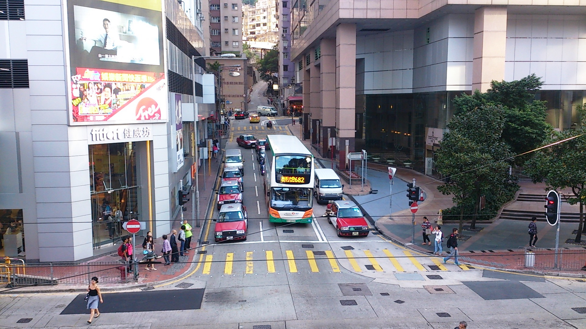 Tin Chiu Street near King's Road